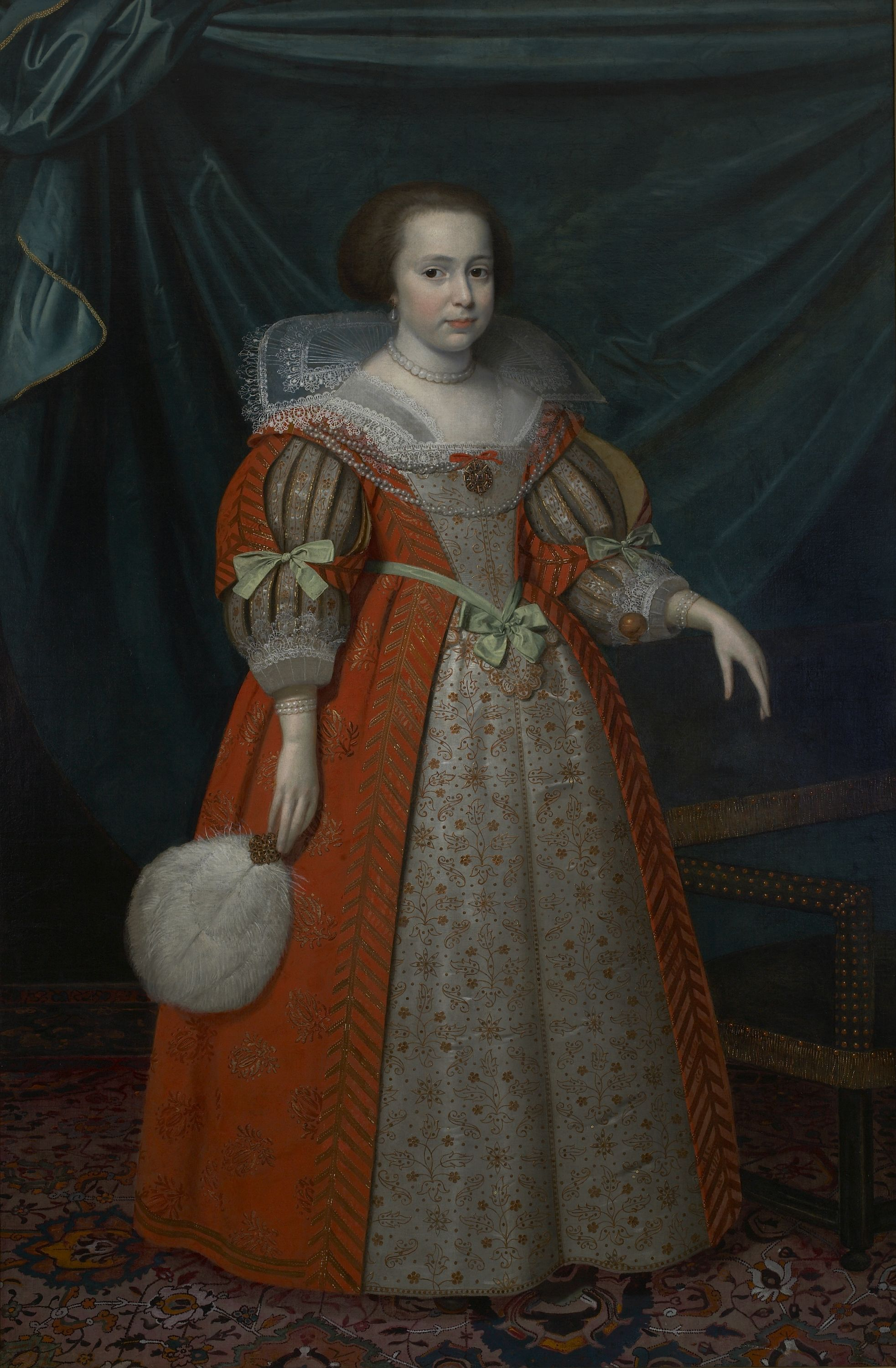 Oil on canvas, in a carved wood frame, 158 x 104 cms., 62.5 x 41 ins.